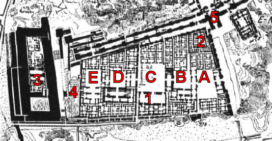 Plan of the "South Palace" (Südburg) of Babylon. Legend: A, B, C, D, E: main courts. 1: throne room, 2: "Vaulted building", 3: "Western Outwork", 4: Persian building, 5: Ishtar Gate.